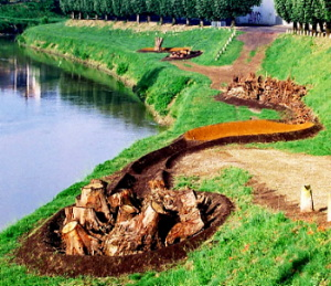 Family Tree/ Death 1997, 130m long